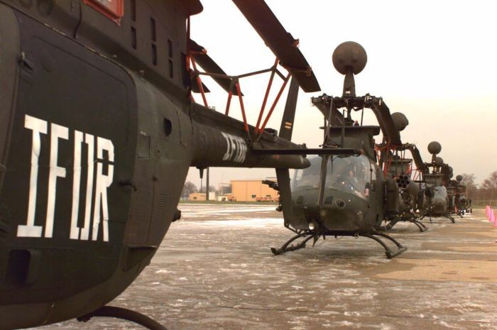 U.S. Army OH-58D Kiowa Warrior helicopters are staged for deployment in Operation Joint Endeavor at Rhein Main Air Base, Germany, on Jan. 3, 1996. The OH-58's will be loaded into Air Force cargo aircraft and deployed to bases in Bosnia and Herzegovina as part of the NATO Implementation Force (IFOR). The Kiowa is a two seat, single engine, four-bladed main rotor, scout helicopter with a low light television, thermal imaging system and a laser rangefinder/designator incorporated into a mast mounted sight. The helicopters are from the 3rd Battalion of the 4th Aviation Brigade Cavalry Unit, Schweifurt, Germany.